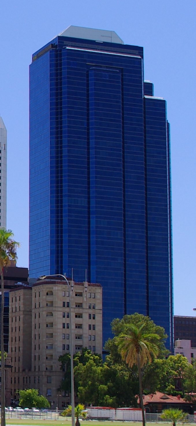 Exchange Plaza in Perth, Western Australia, viewed from across the Esplanade reserve.